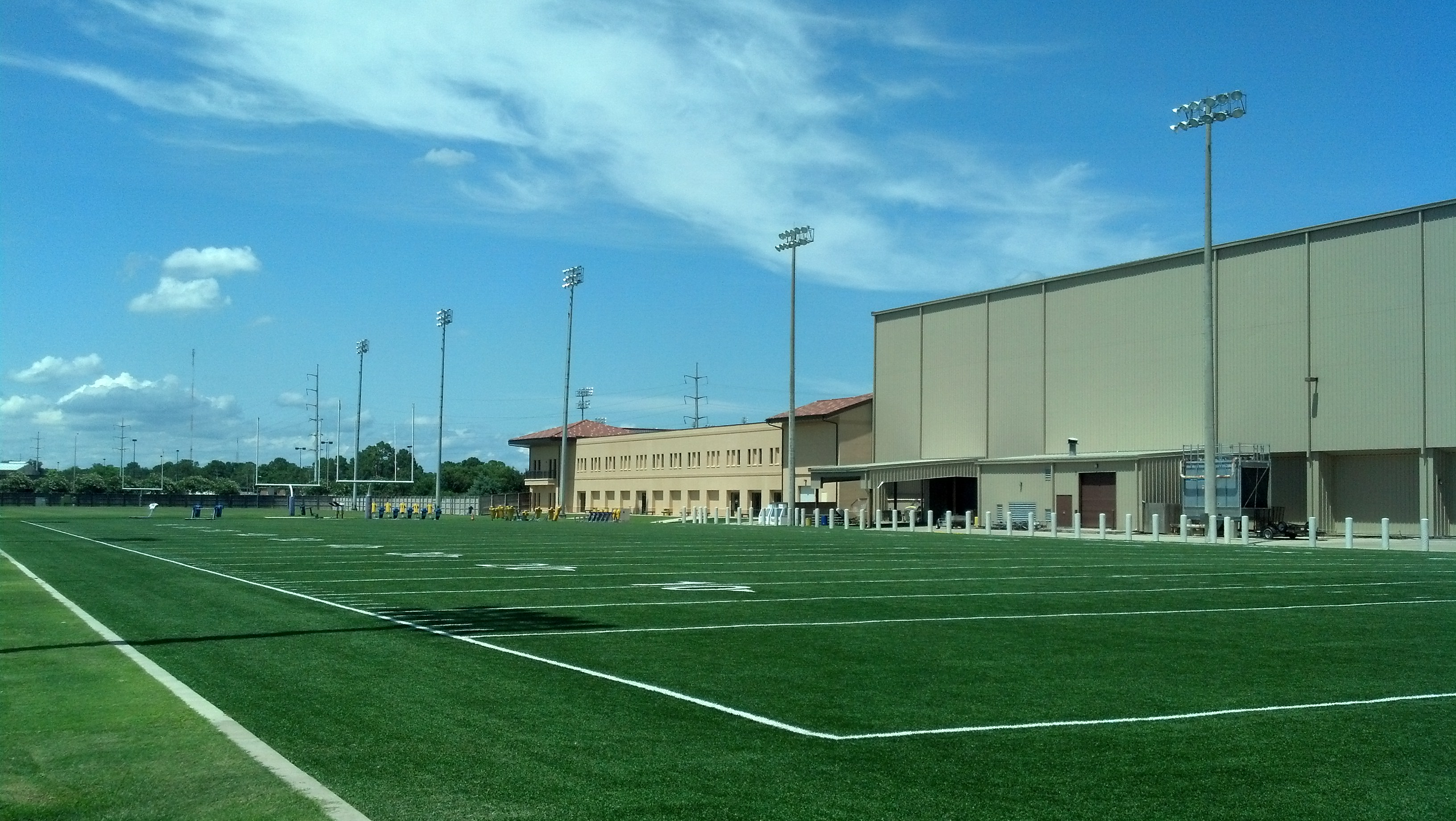 Charles McClendon Practice Facility